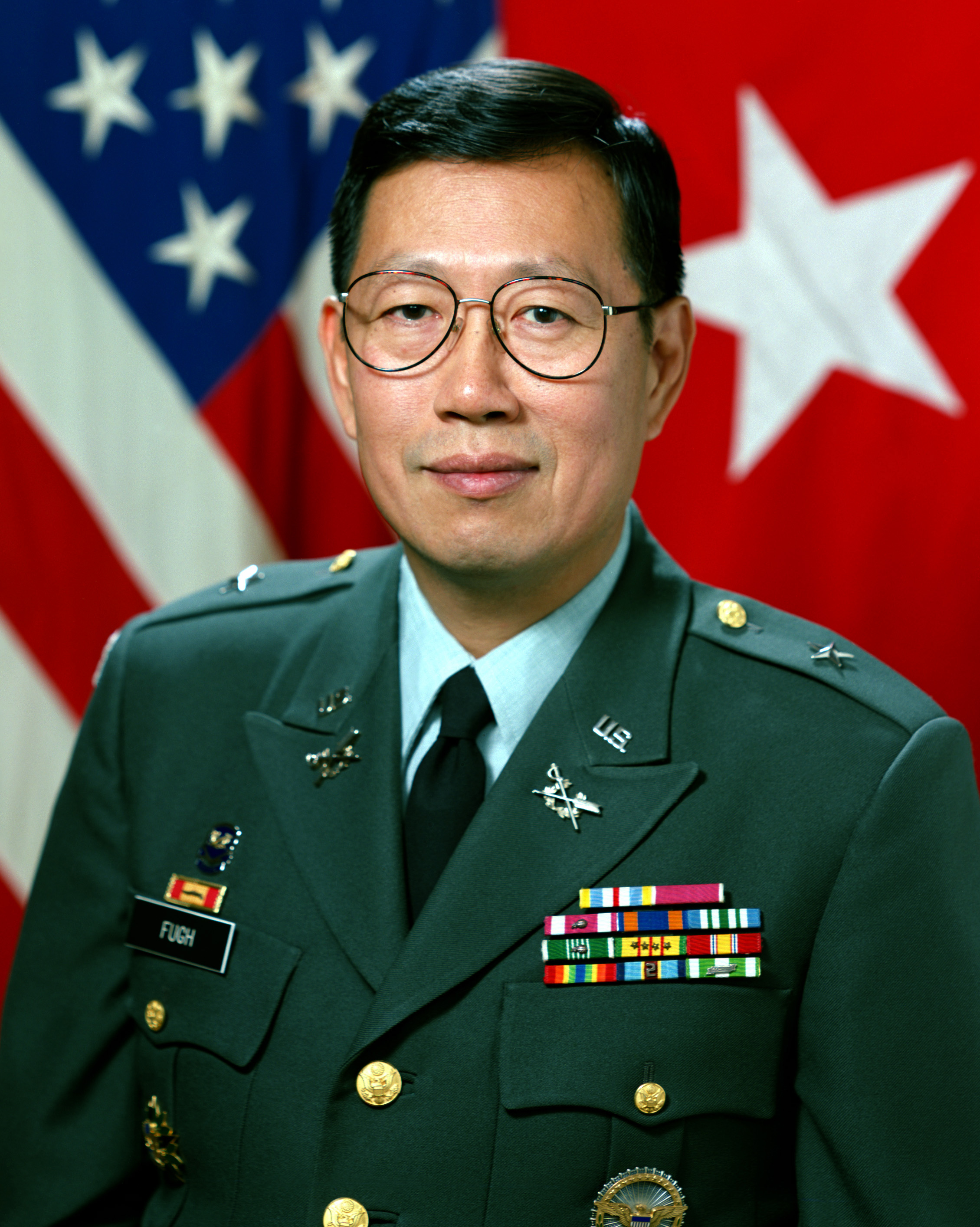 General Fugh